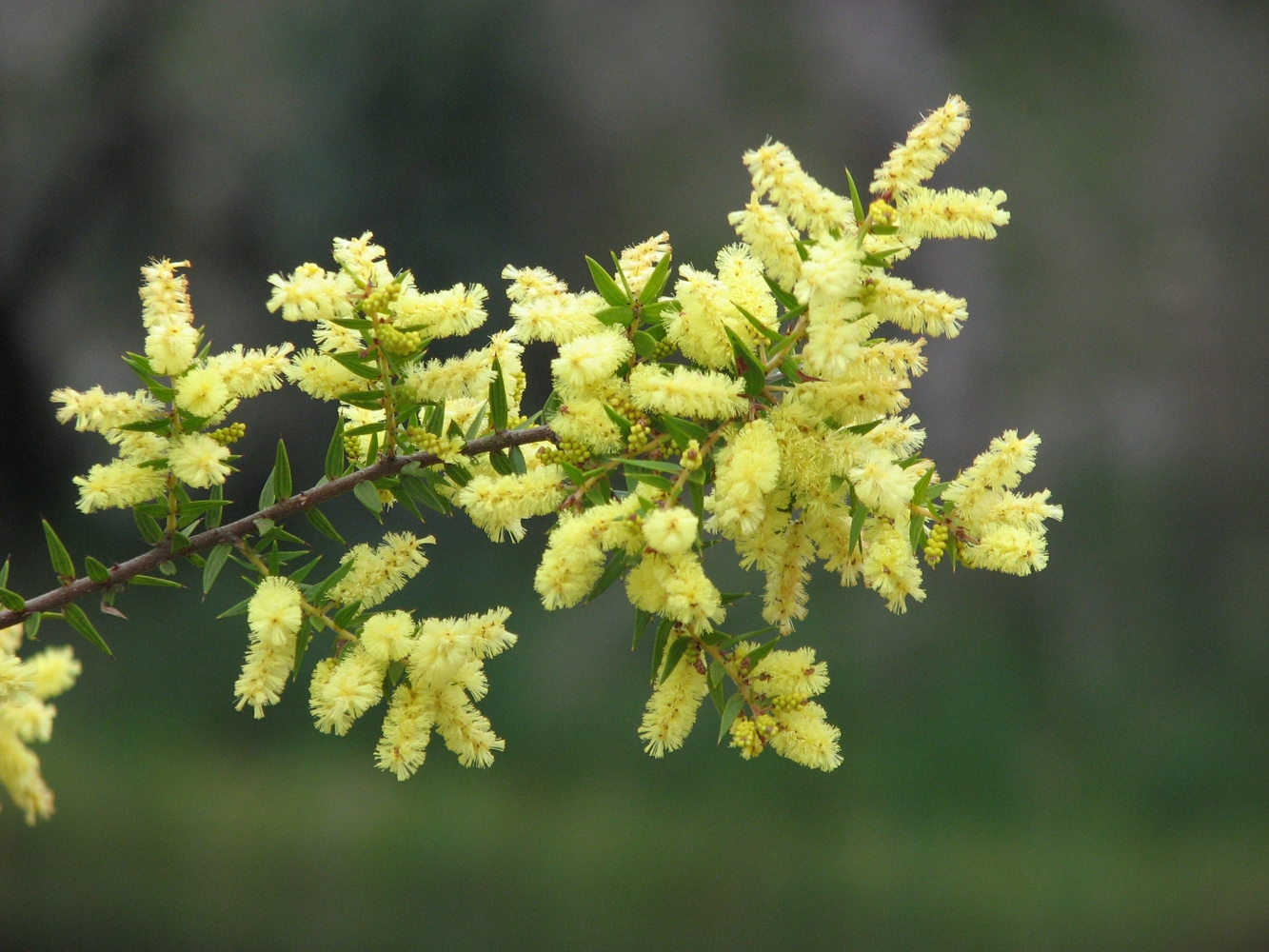 Acacia oxycedrus, Bunyip State Park, Victoria, Australia